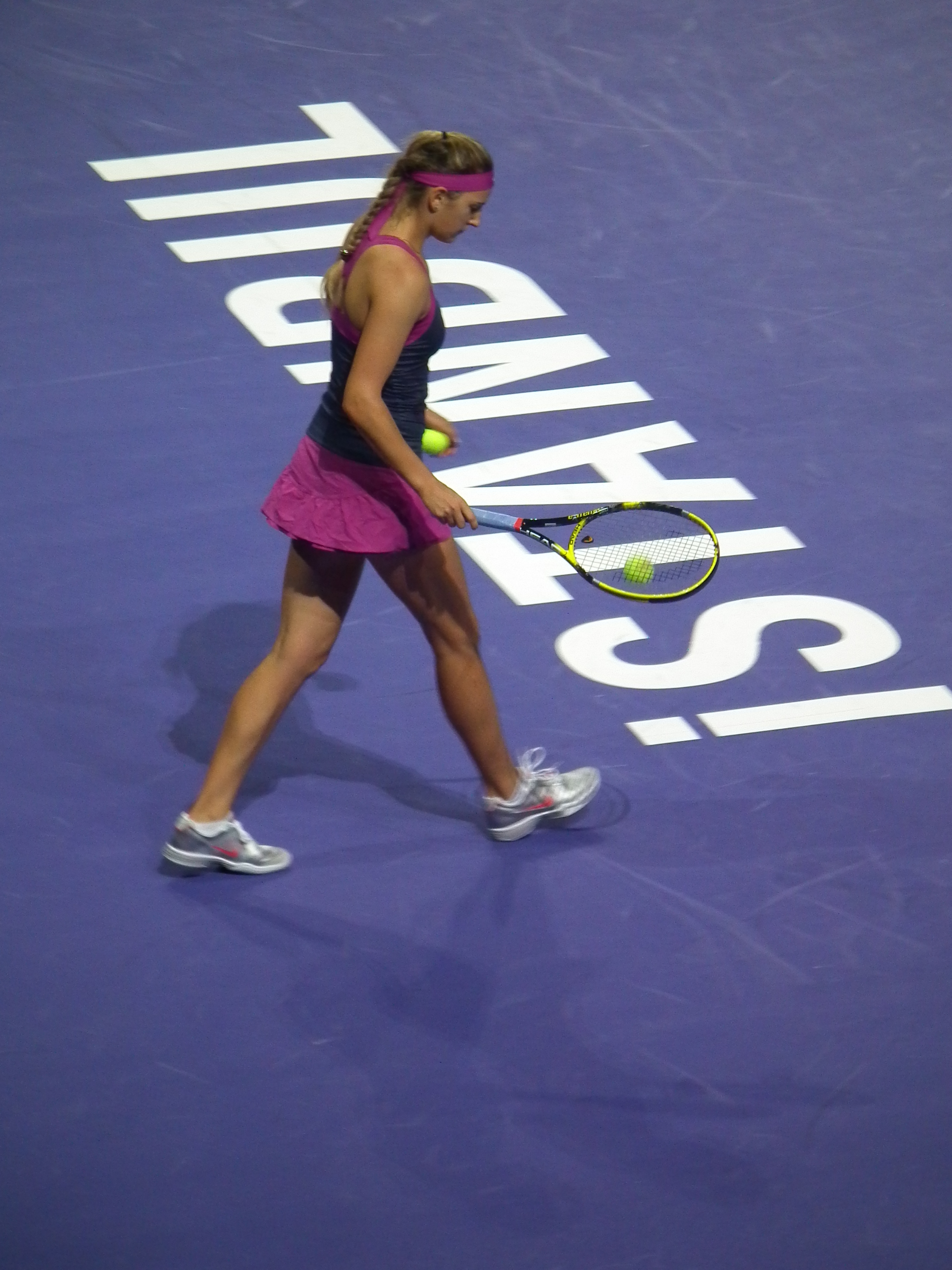 Victoria Azarenka at WTA Istanbul 2011